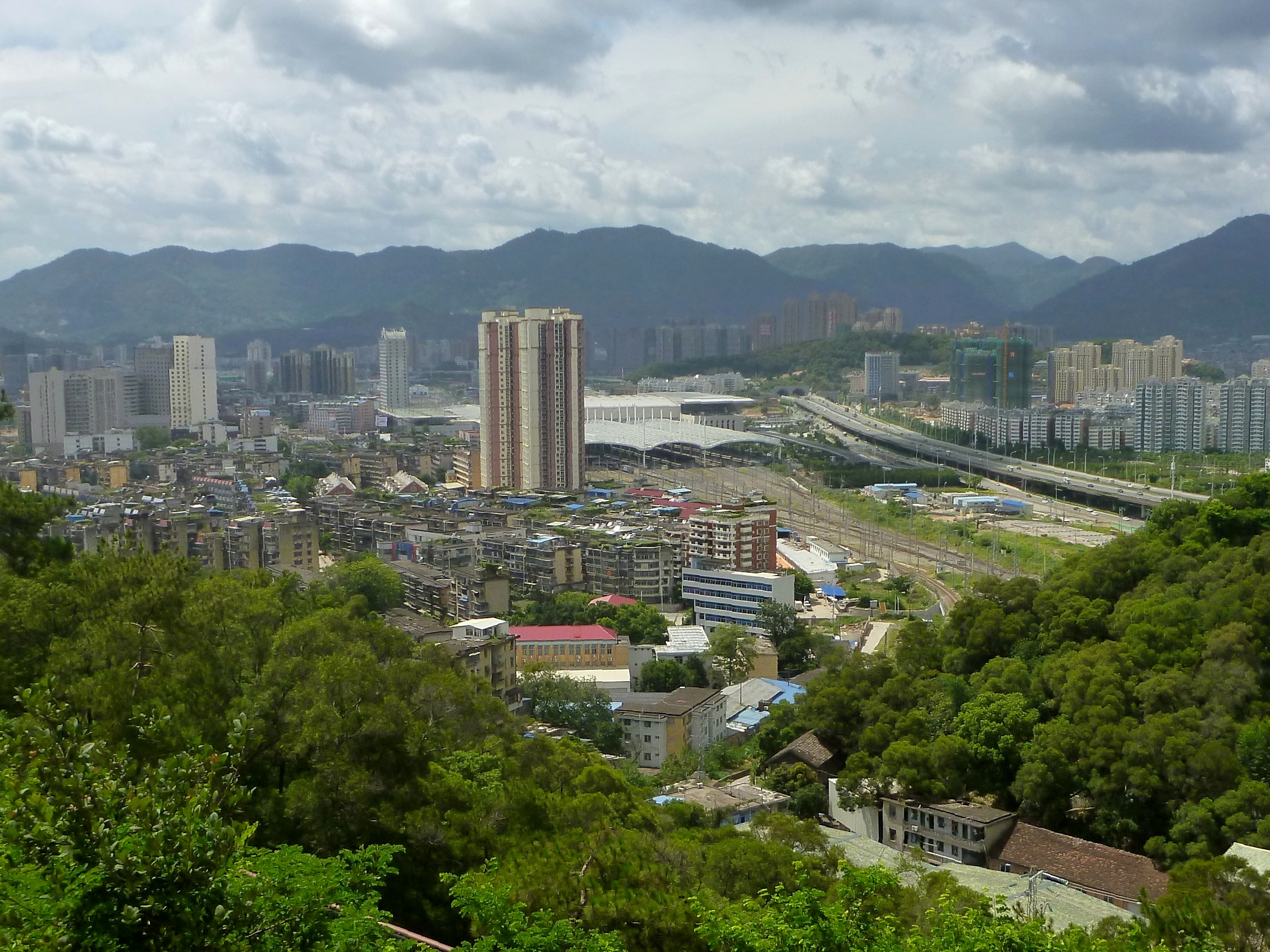 金鸡山上看福州火车站 - Fuzhou Railway Station Viewed from Jinji Hill - 2015.08